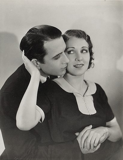 Donald Cook e Rita Flyn in una foto di scena del film "The Public Enemy"